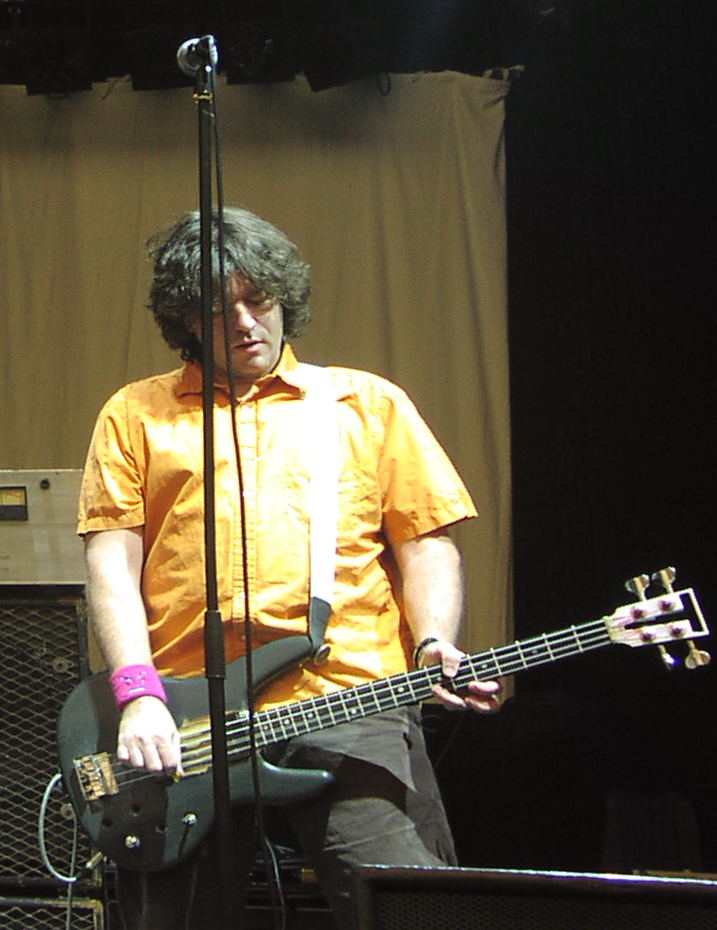 Shellac playing Pavilion Stage ATP vs The Fans